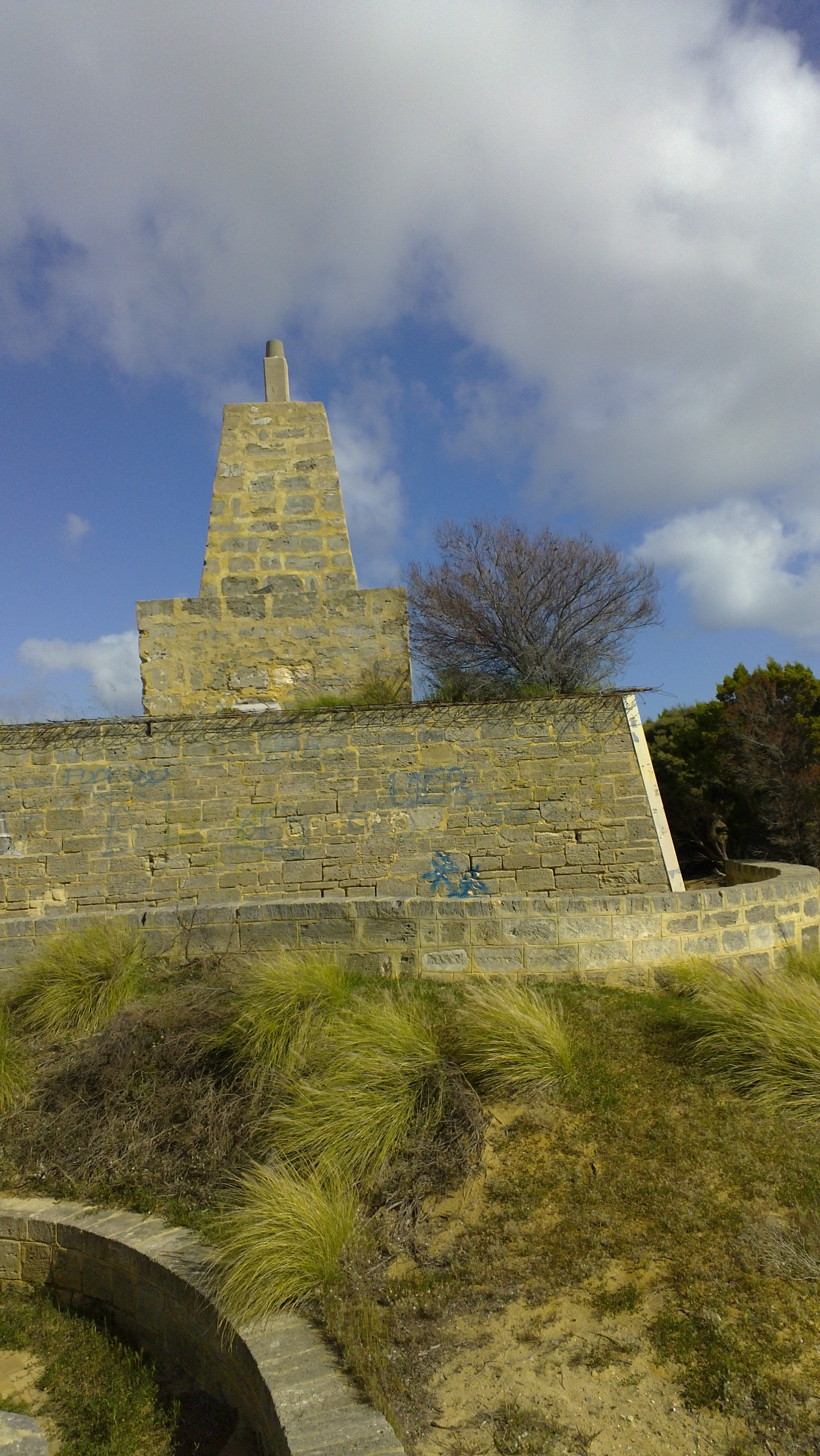 The Buckland Hill obelisk in Mosman Park.